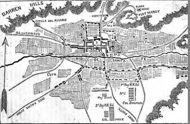 SantaFe2